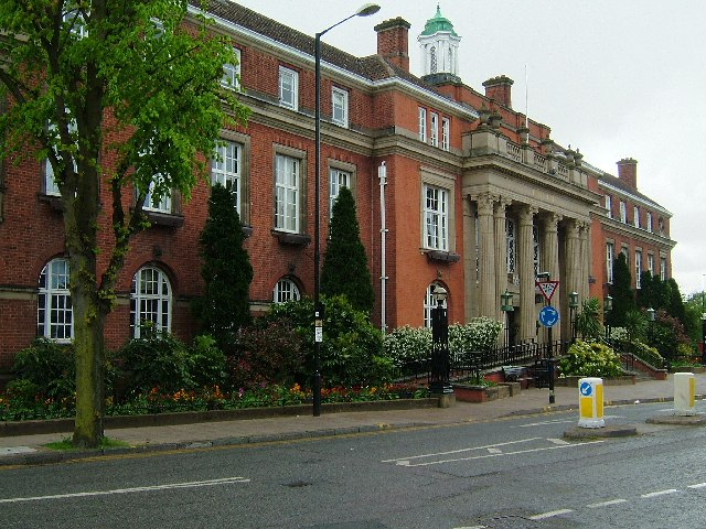 Nuneaton Town Hall.